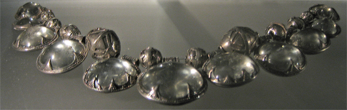 Viking necklace. These crystal balls are popular in viking jewellery.